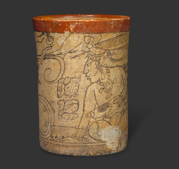 GUATEMALAN LOWLANDS. Late Classic Maya, AD 600–900. This vessel, from the heartland of Maya civilization in Northern Guatemala, is decorated by a limited palette (red, black, and cream) and is devoted to a scribal theme. The figures on the vessel are a human scribe and the god of scribes, Itzam, identified as such by iconic imagery and glyphs.